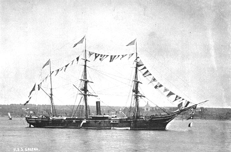 USS Galena (1880-1892) Dressed with flags, circa the later 1880s.